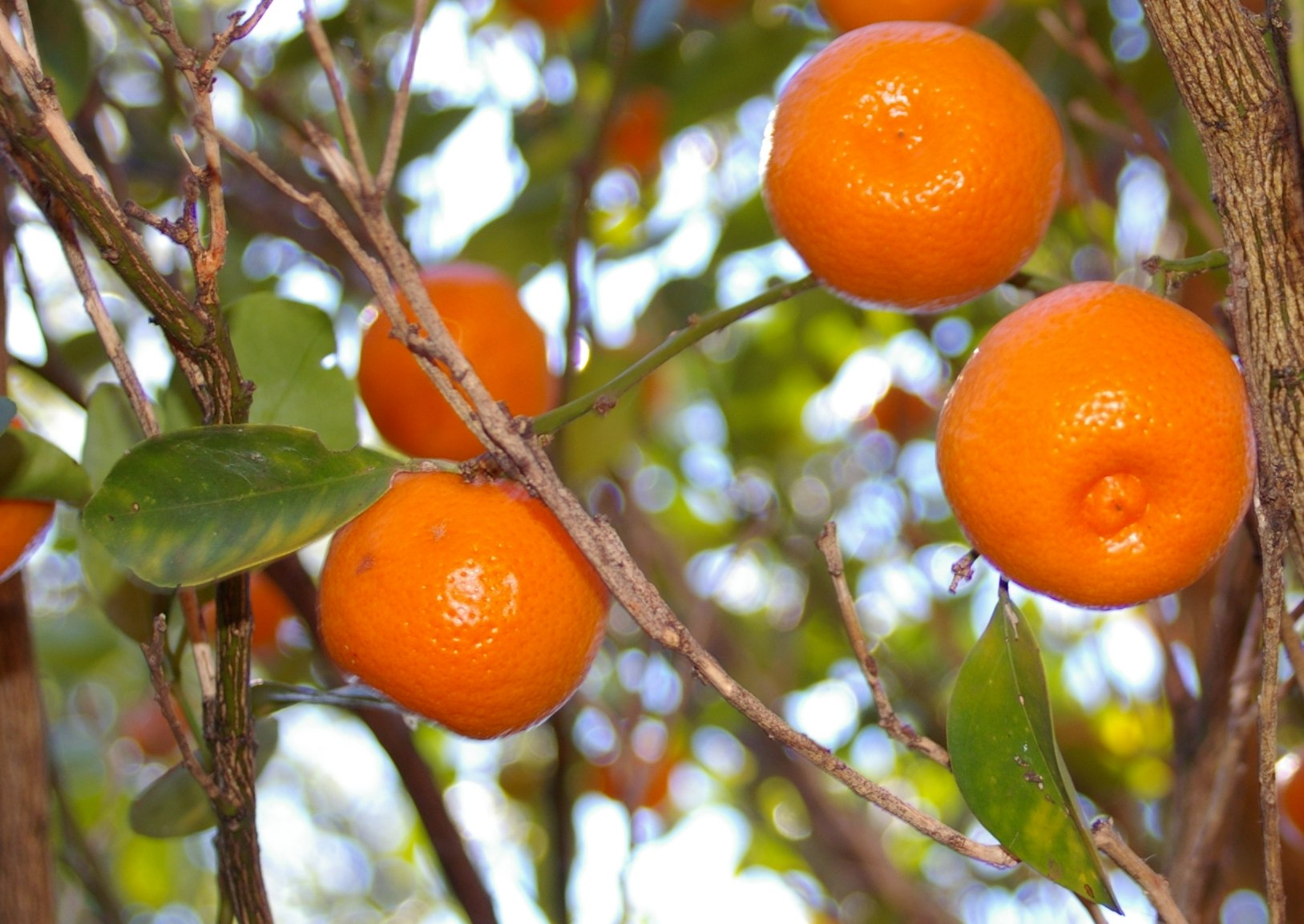 I made this digital image